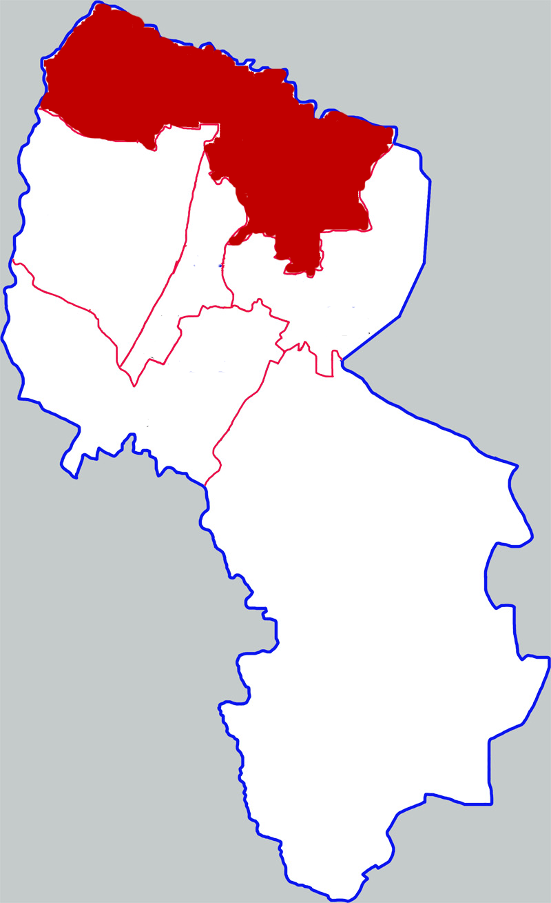 Location of Helan county in Yinchuan city, China